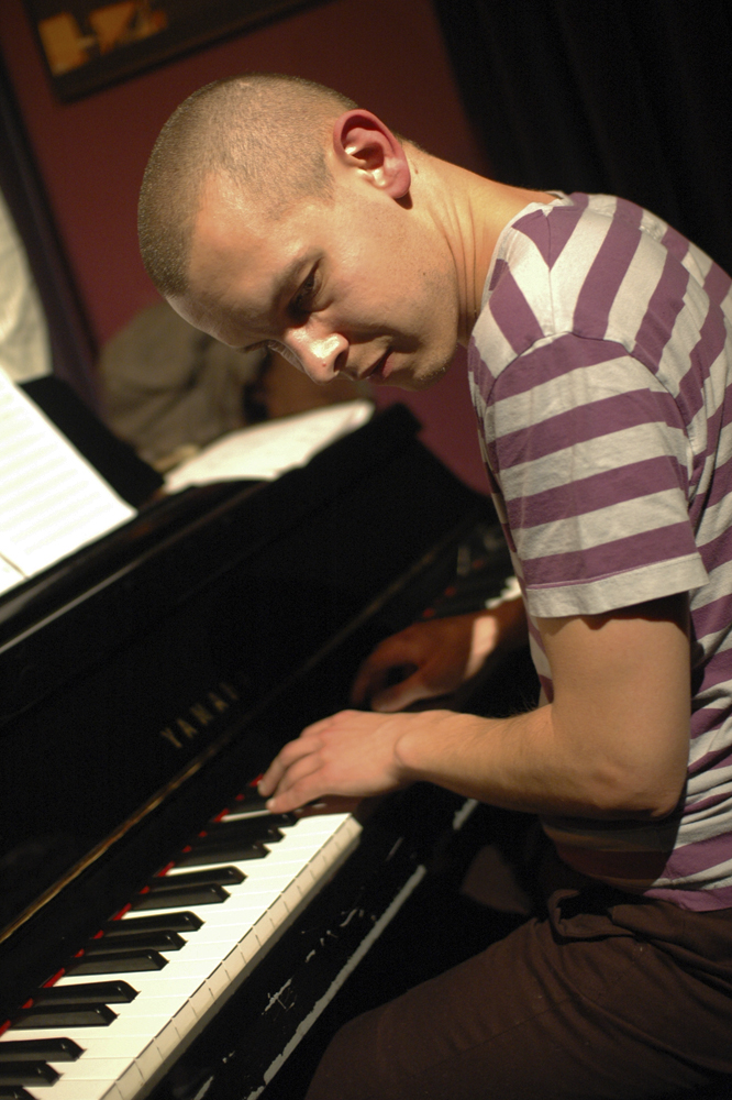 Pawel Kaczmarczyk - jazz pianist from Poland in concert at jazz club Tygmont in Warsawa, Poland